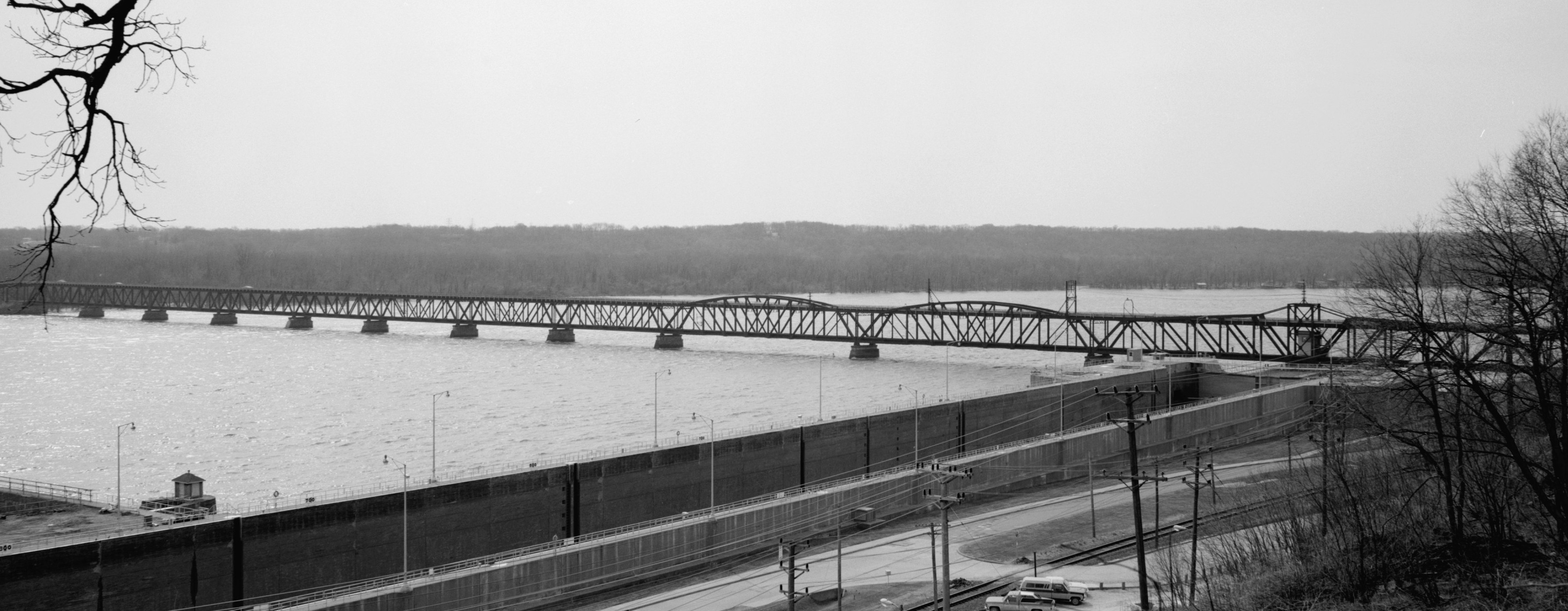 GENERAL VIEW FROM UPSTREAM ON THE IOWA SHORE, LOOKING S. PHOTOGRAPHER- SARAH J. DENNETT - Keokuk and Hamilton Bridge, Spanning Mississippi River, Keokuk, Lee County, IA